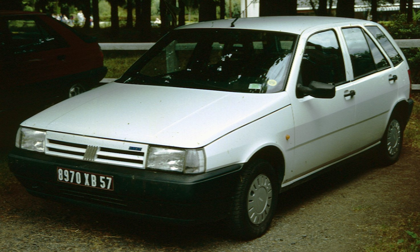 Fiat Tipo 5 door early example in Meurthe-et-Moselle from Moselle